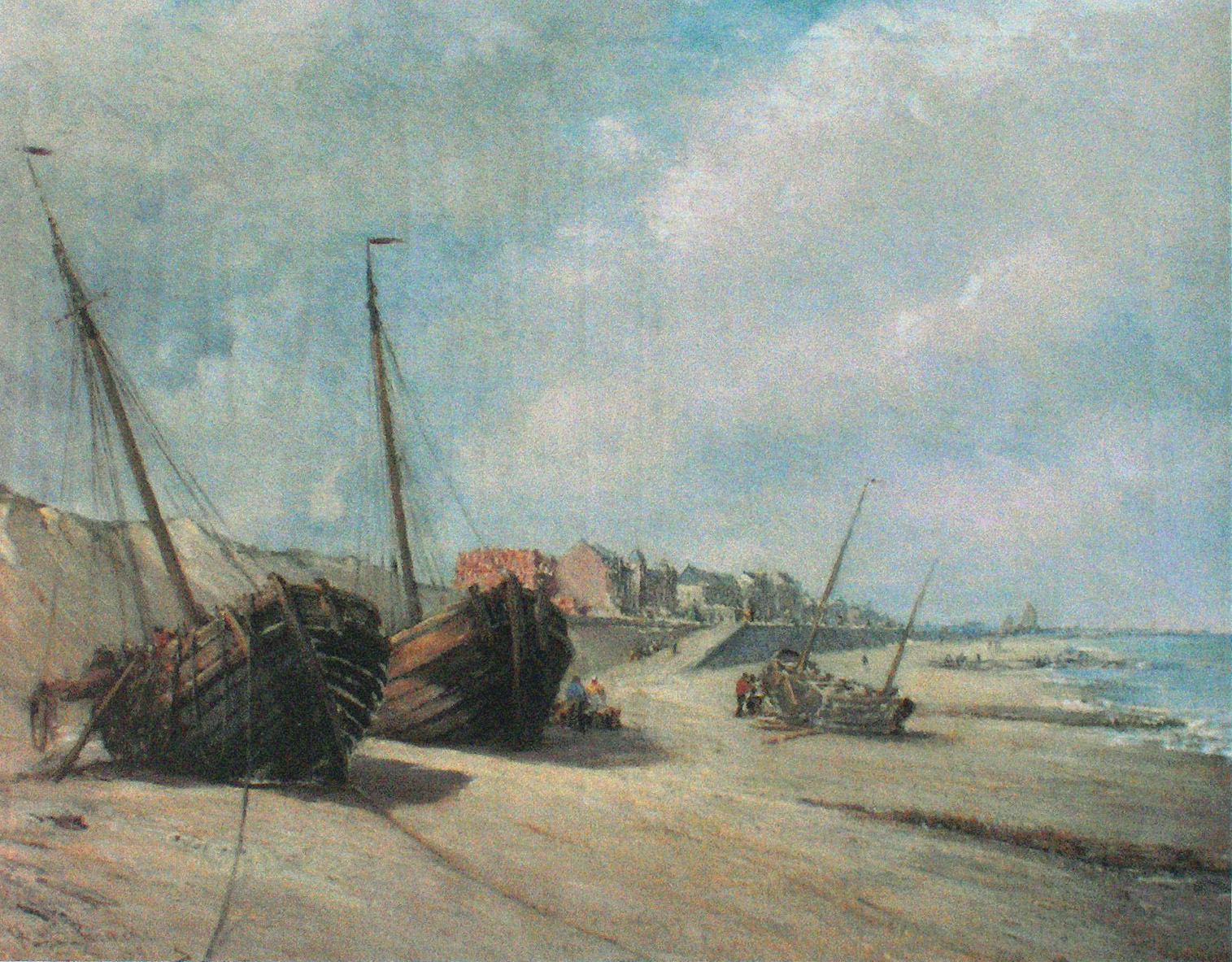 Fishing boats on the beach of Heist (1891); oil painting by Henri Permeke (1849-1912); collection of the municipality of Knokke-Heist